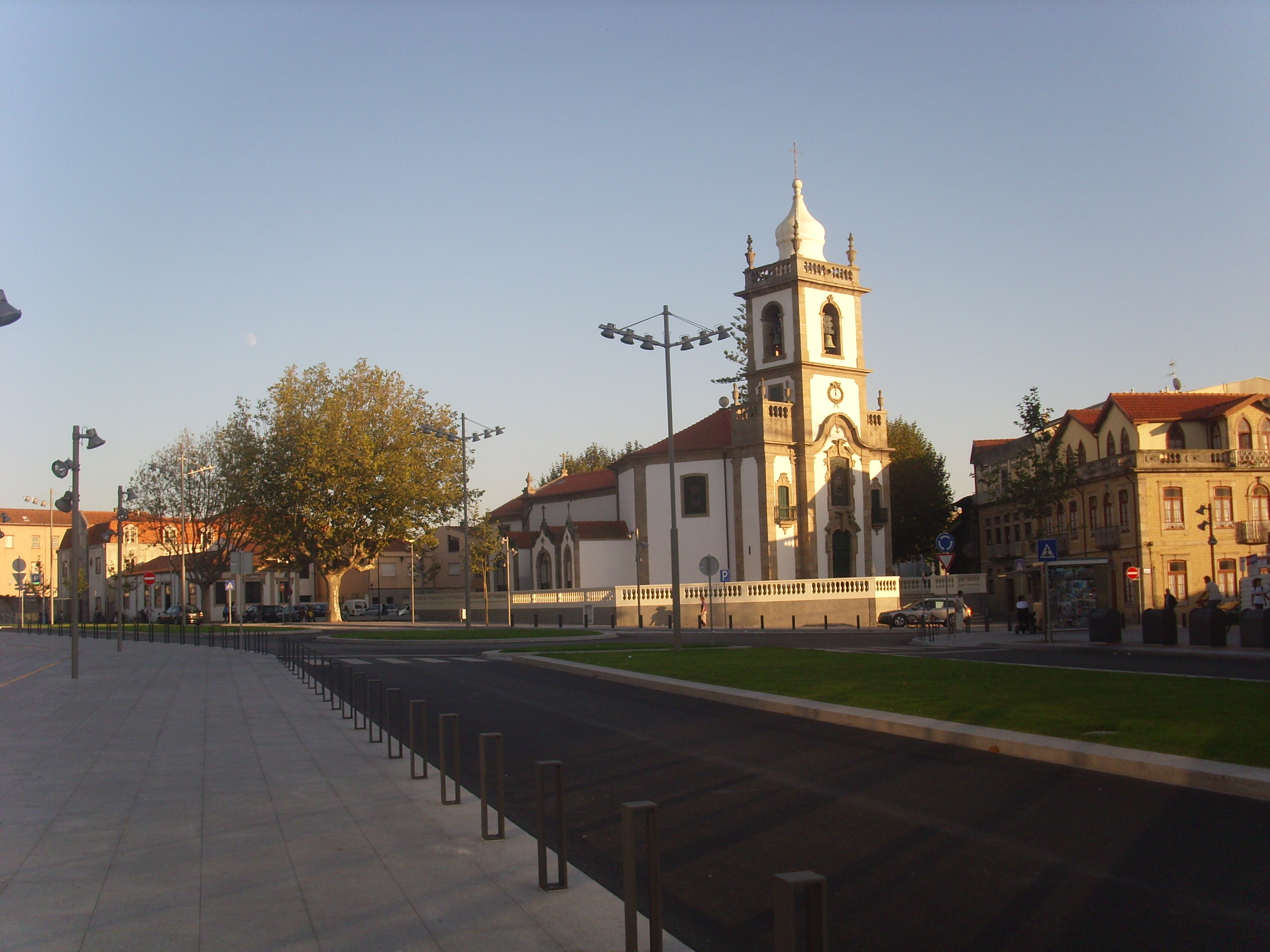 Dores Square with Senhora das Dores Church in Povoa de Varzim, Portugal